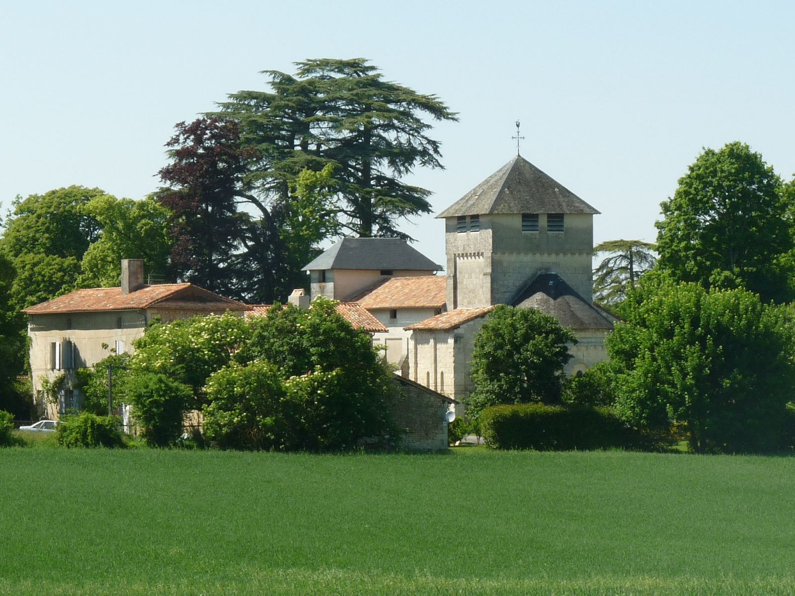 church of Cumond, St-Antoine-Cumond , Dordogne, SW France